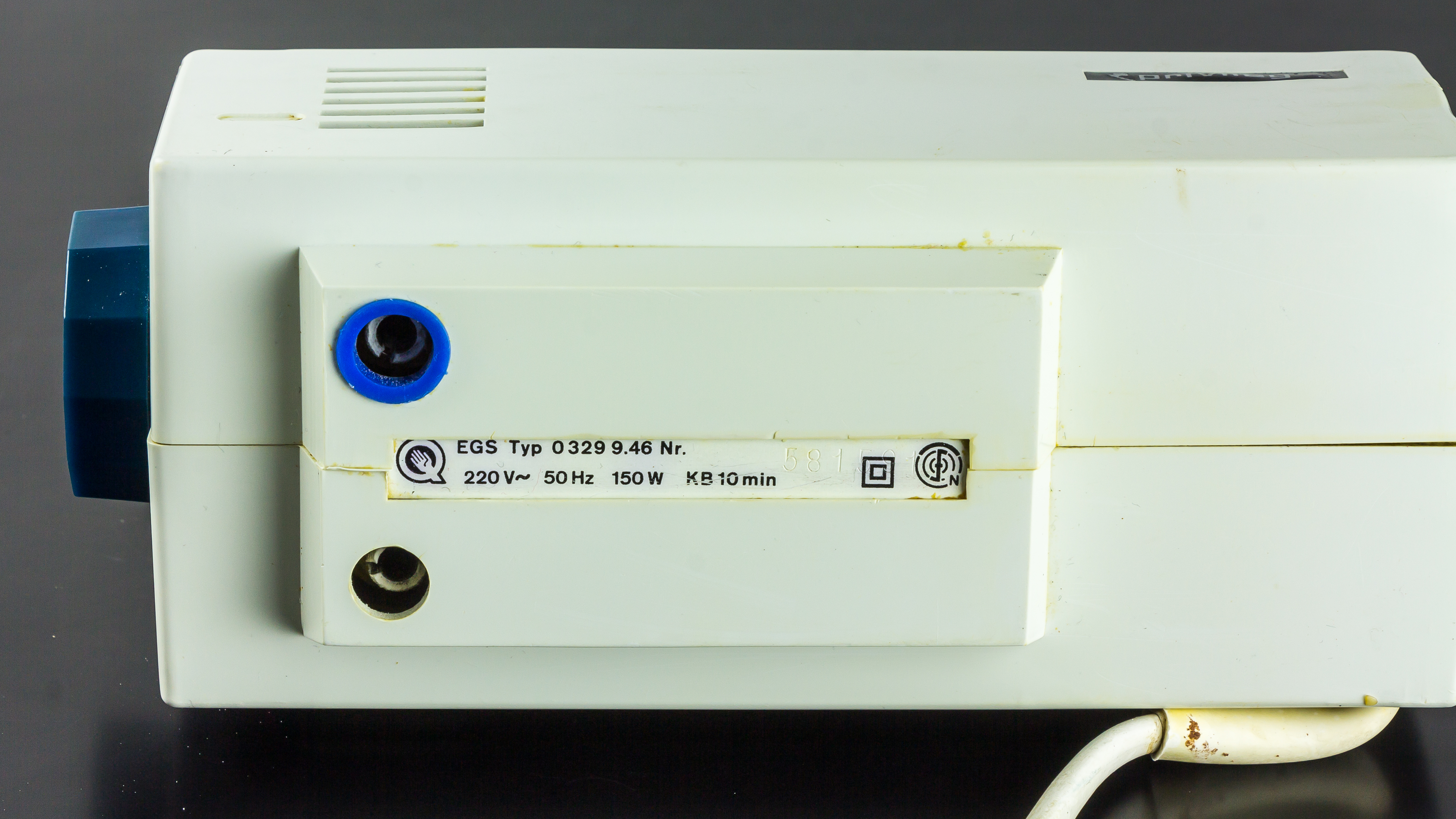 Privileg EGS Typ 03299.46 - Handheld electric beater